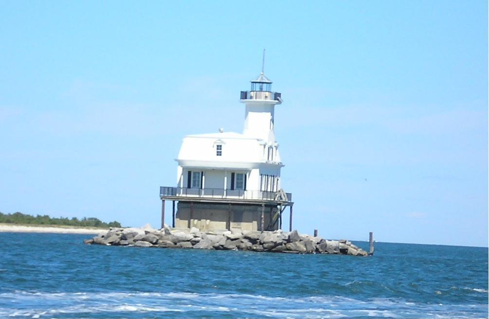 The author of this photo is me, David Shankbone. 13 August 2006. Orient Point Lighthouse, Hamptons, New York.